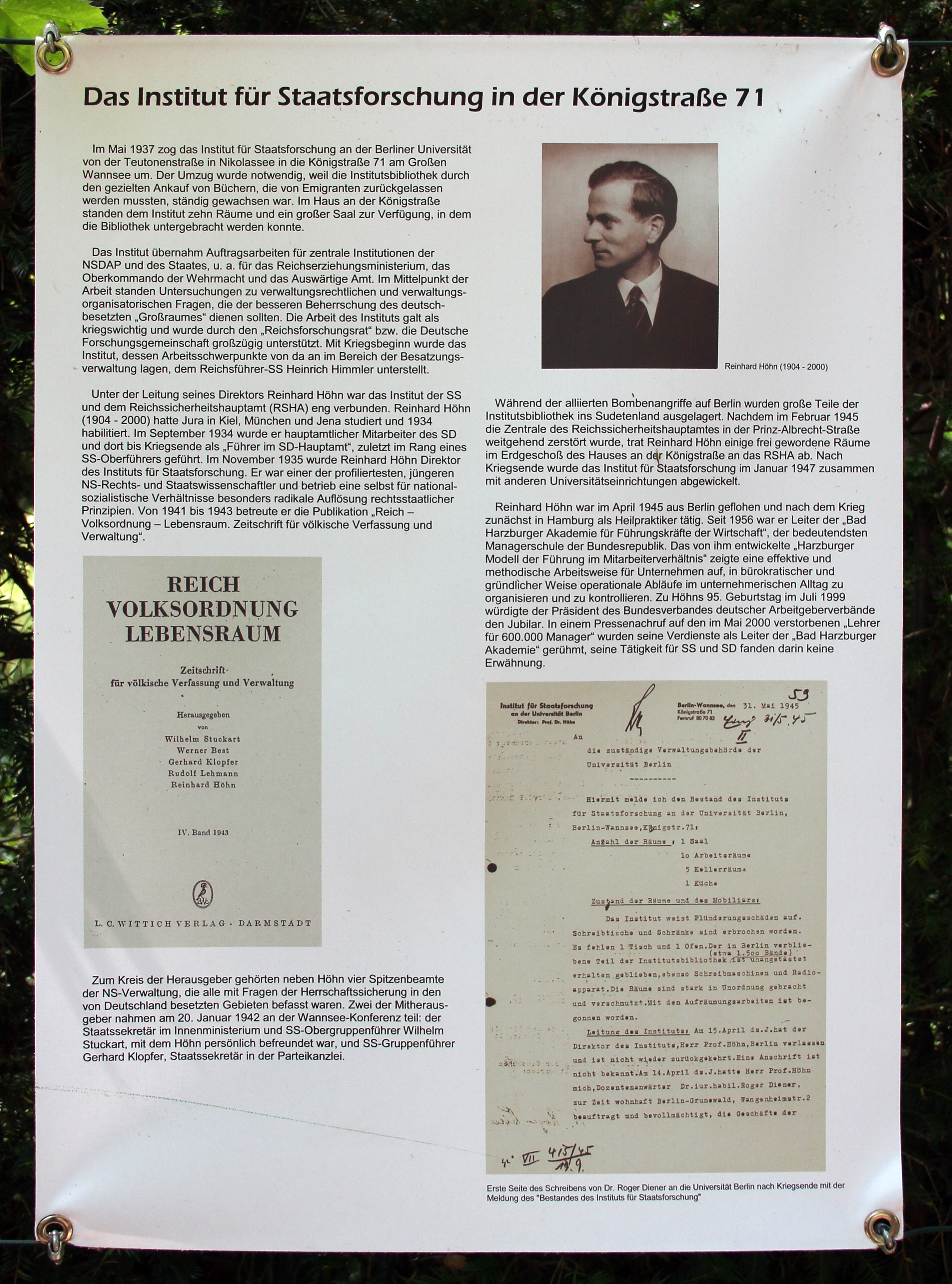 Memorial plaque, Institut für Staatsforschung, Am Großen Wannsee 58, Berlin-Wannsee, Germany